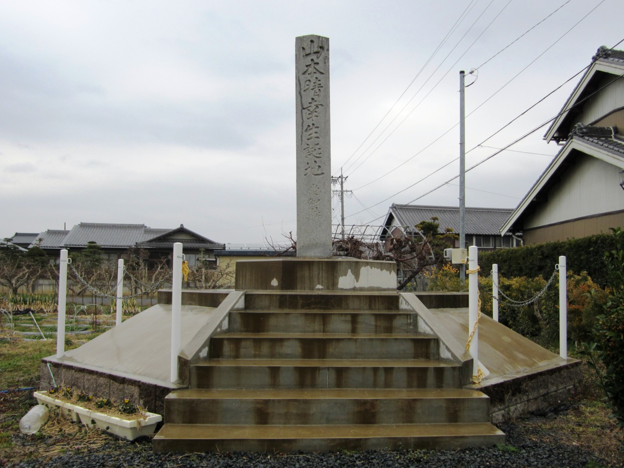 The birthplace of Yamamoto Haruyuki in Toyohashi, Aichi.